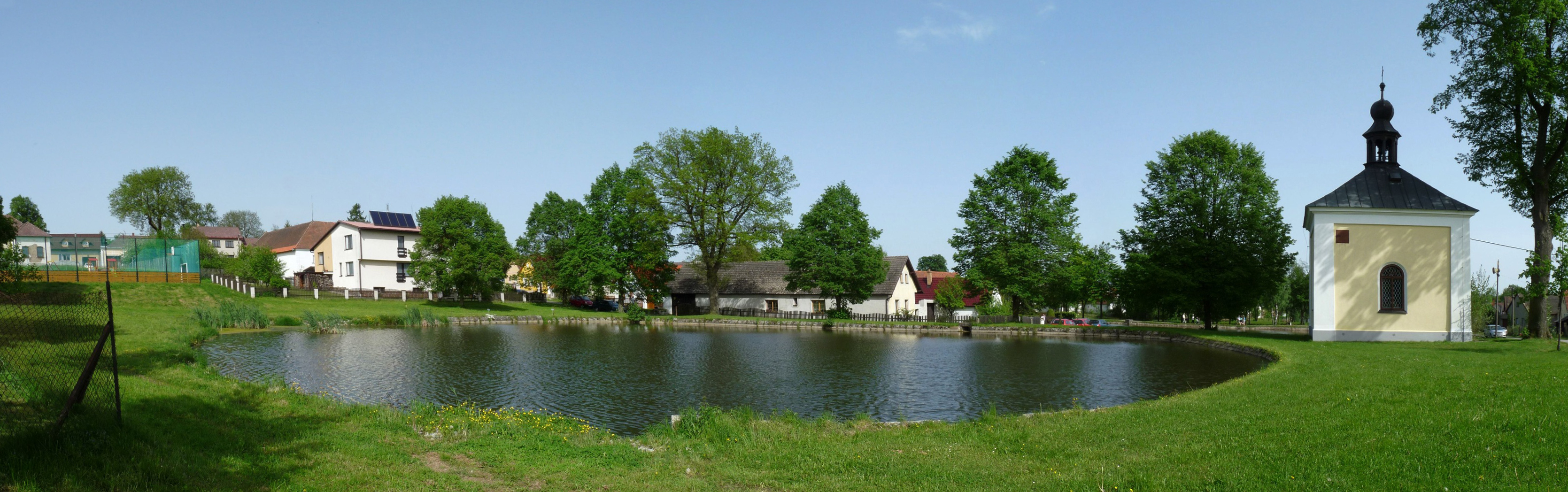 Pond and the chapel in the village of Březina, Jindřichův Hradec District, South Bohemian Region, Czech Republic.